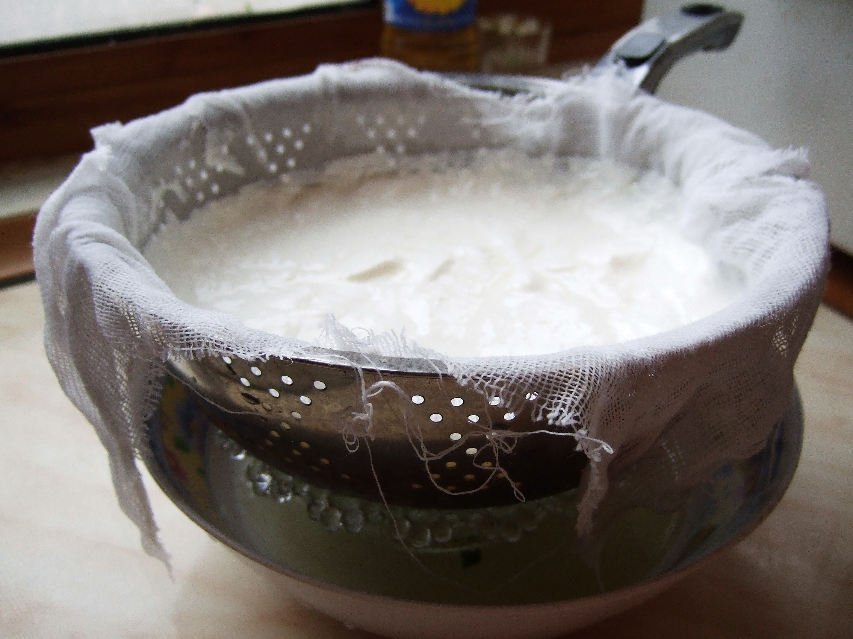 Yogurt being strained for a thicker texture